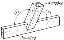 Kind of Protractor